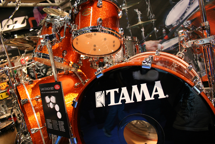 Image of a Tama Drumkit.